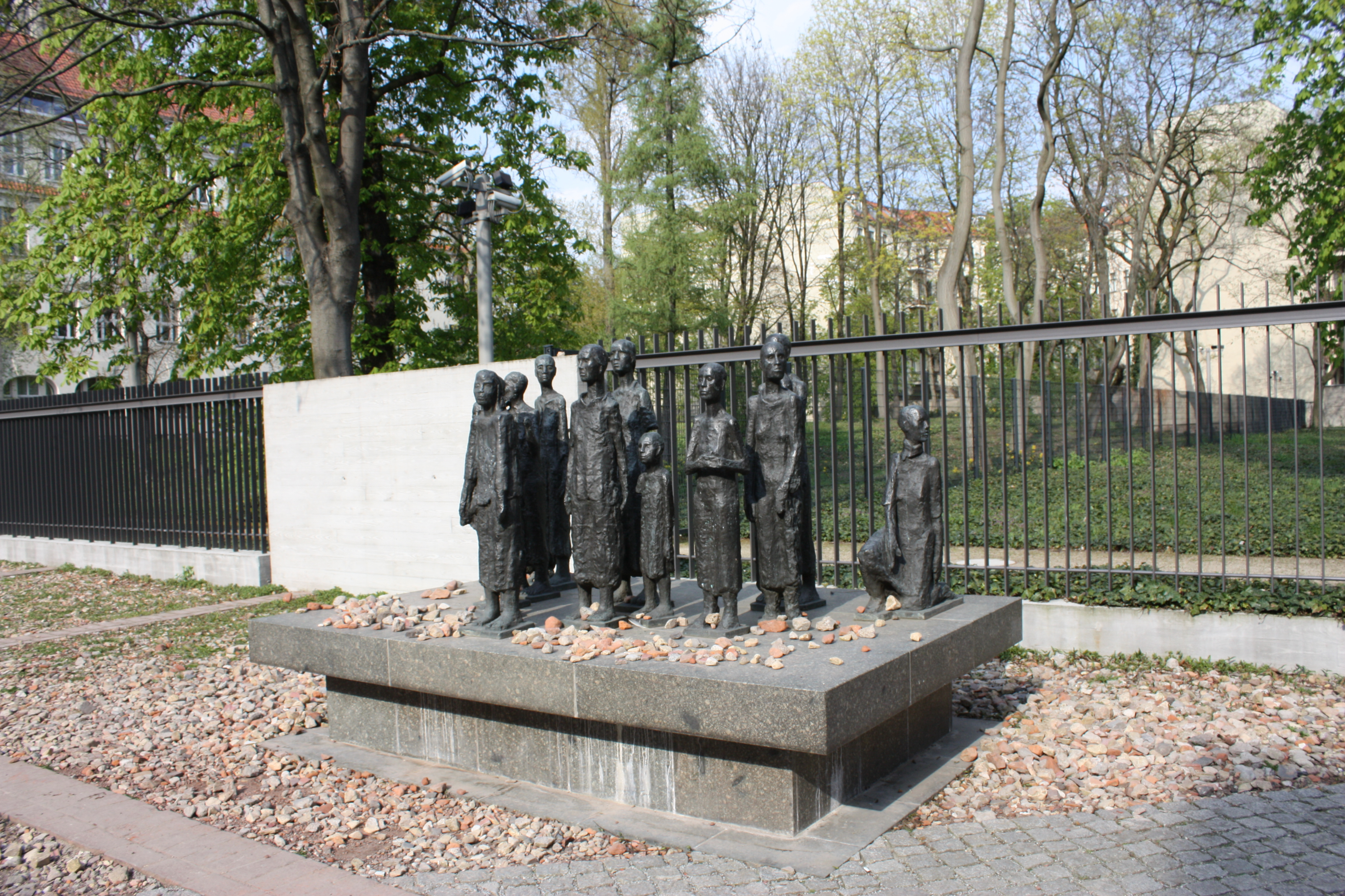 A Jewish memorial on Große Hamburger Straße. The memorial is outside a property used by the Nazis as a detention centre for people awaiting transportation to concentration camps, and a Jewish cemetery used between 1672 and 1827 which was completely destroyed by the Nazis in 1943. During the war the cemetery was re-used as a mass grave for air raid victims.